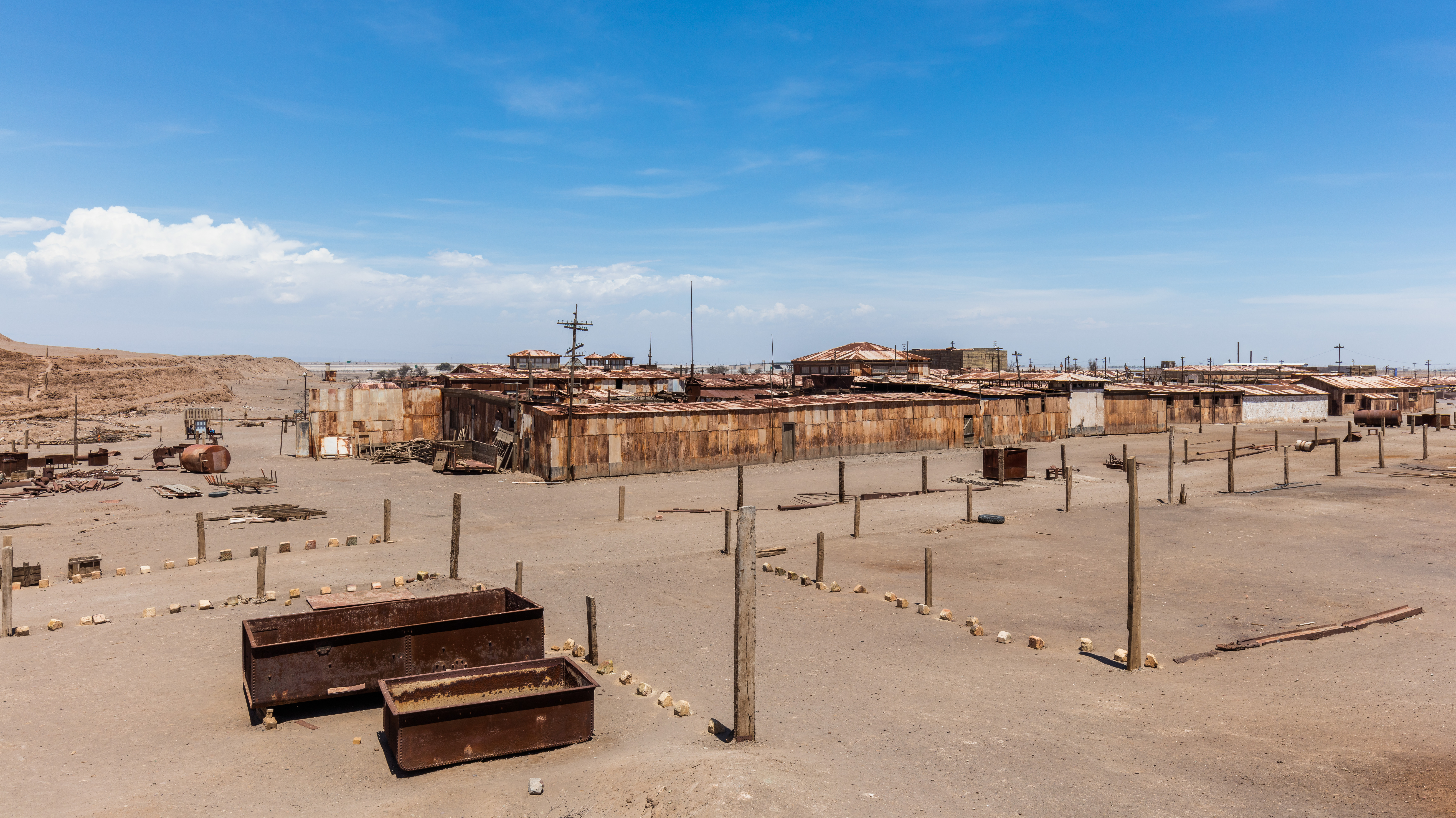 Humberstone and Santa Laura Saltpeter Office, Chile